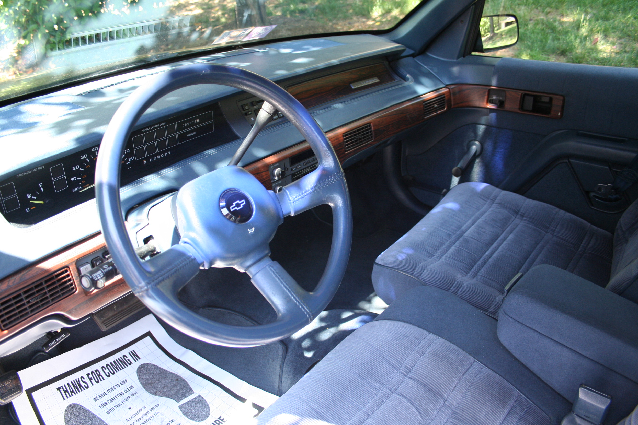 Front seats inside a 1992 Chevy Lumina